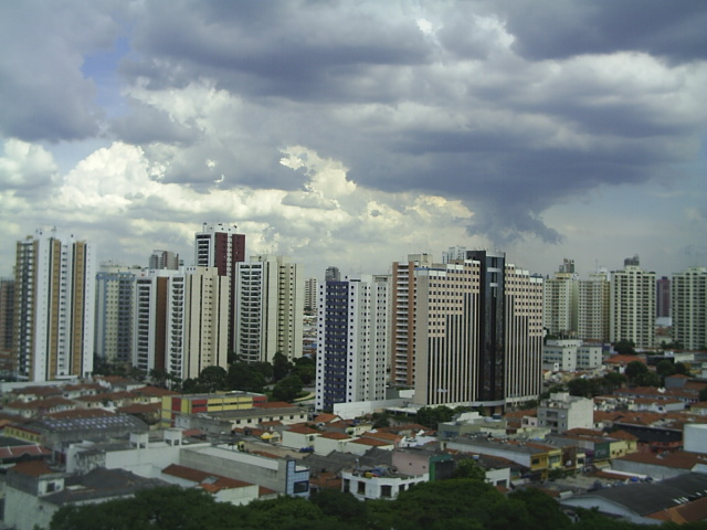 Buildings in district of Tatuapé, in São Paulo City.